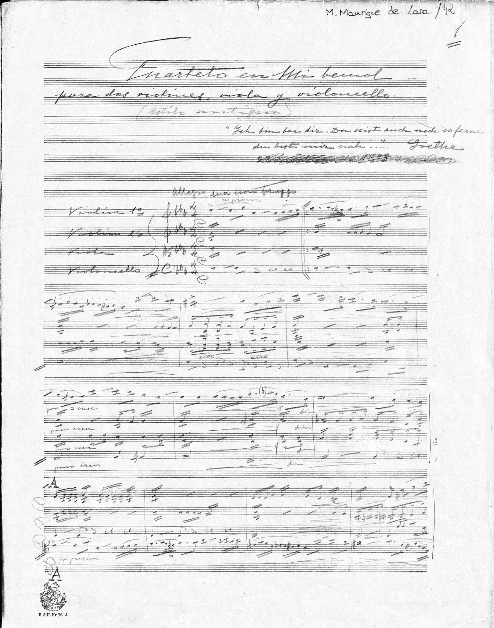 First page of the manuscript of String Quartet in E-flat major by Manuel Manrique de Lara (1893).